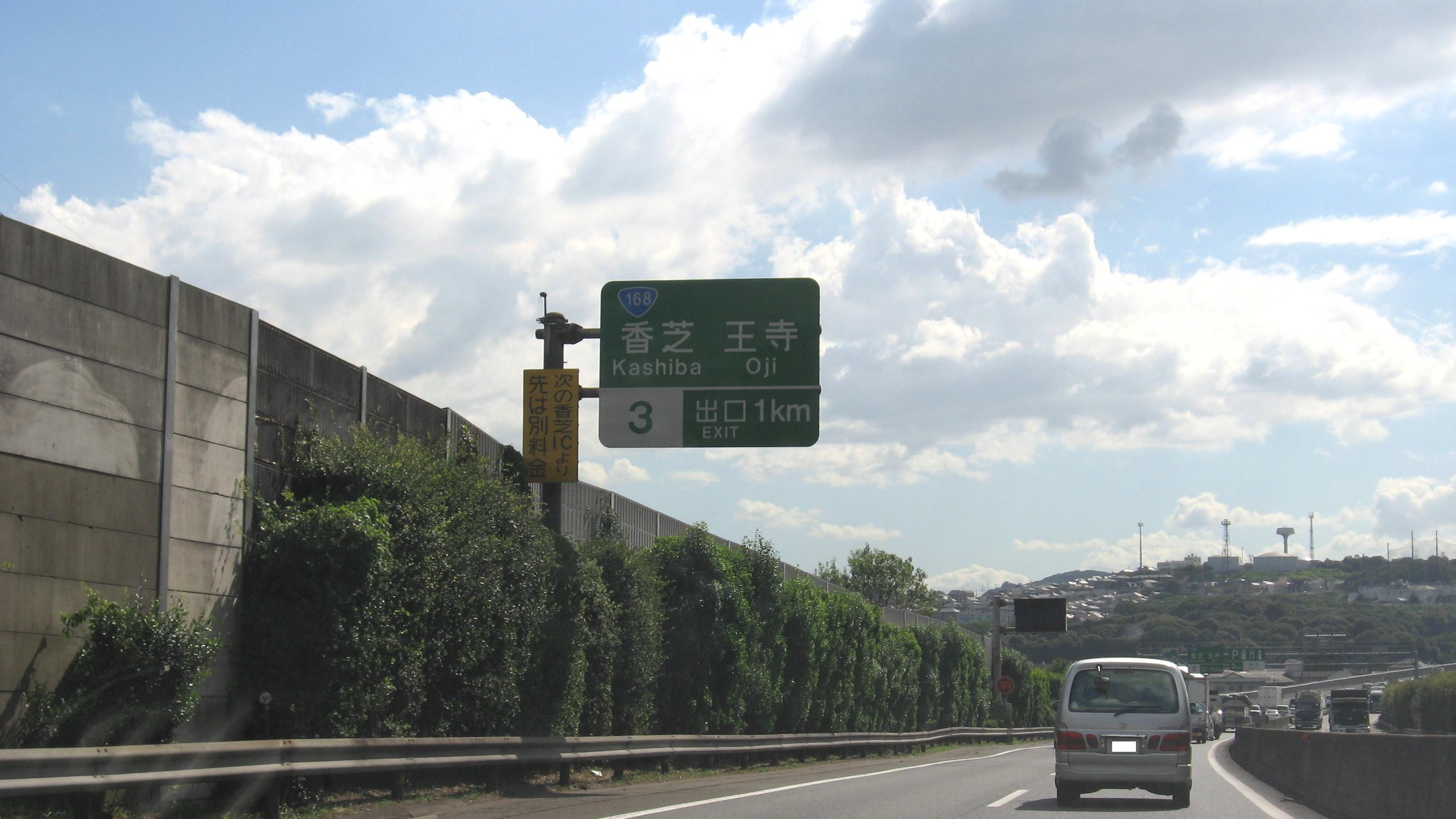 Kashiba IC